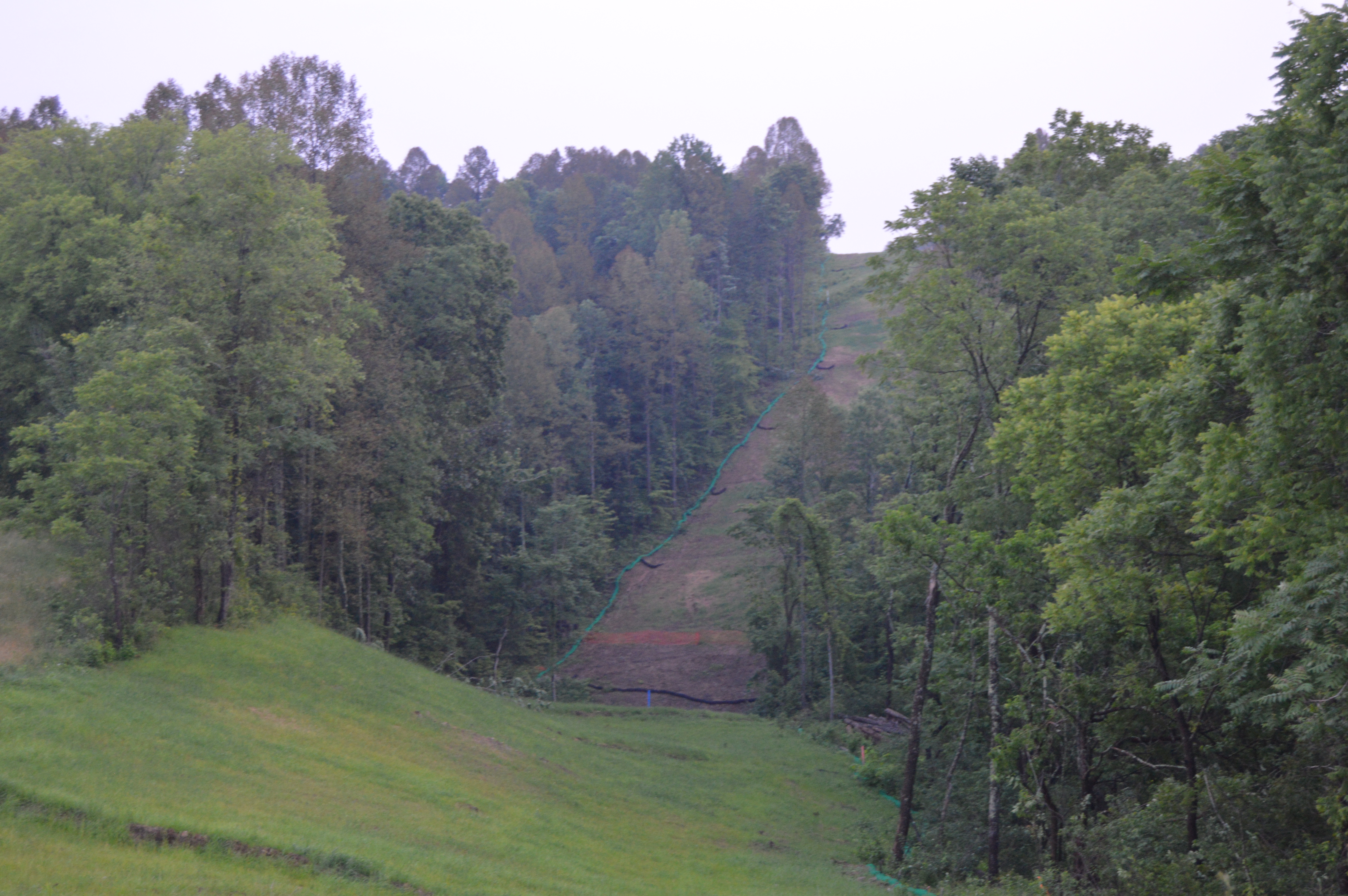 Clearing on a wooded hillside, seen looking southeast from Lew Martin Road, in Seneca Township, Noble County, Ohio, United States.